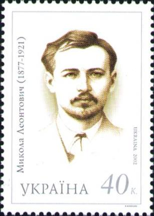 Stamp of Ukraine